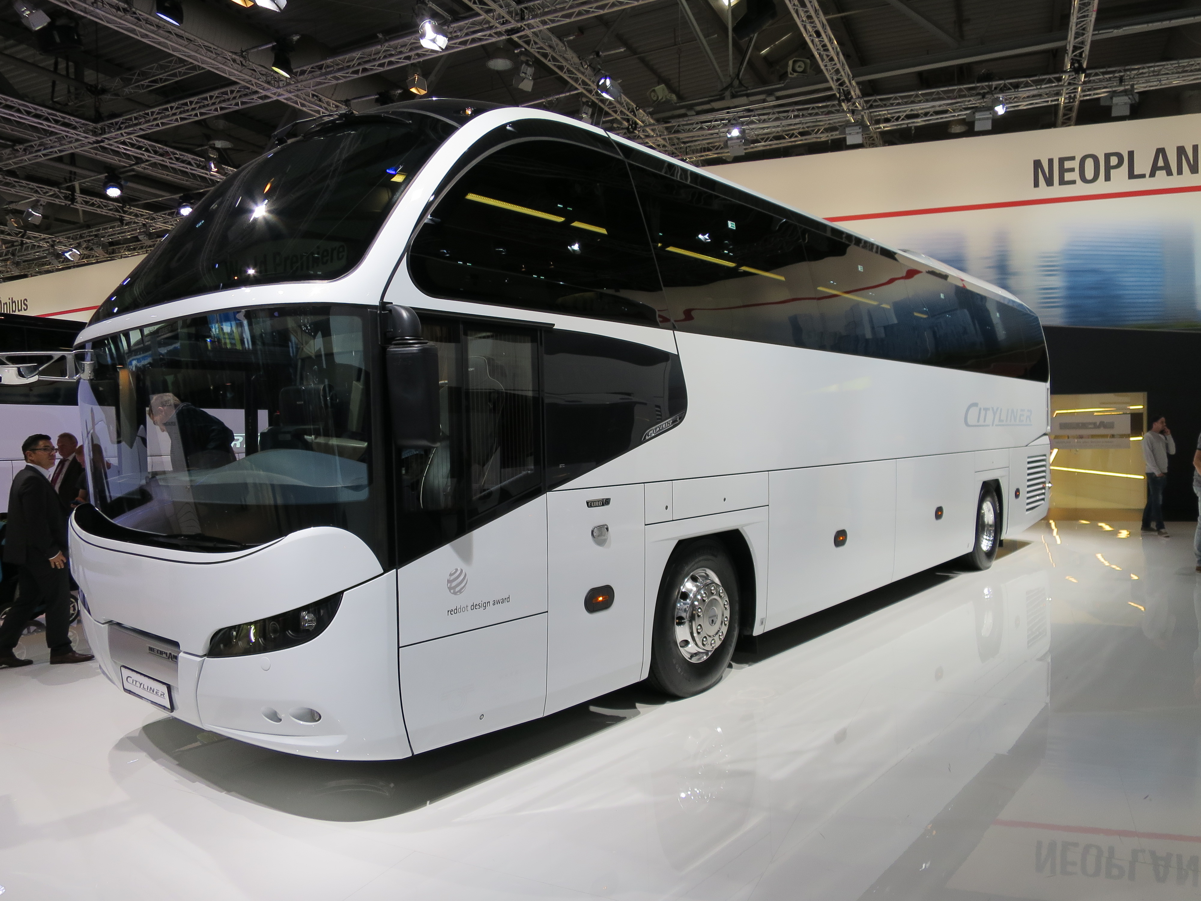 The making of this document was supported by Wikimedia Polska Association, within Wikigrant no. WG 2016-35. Neoplan Cityliner